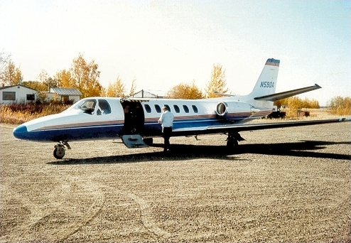 Cessna C560 Citation II